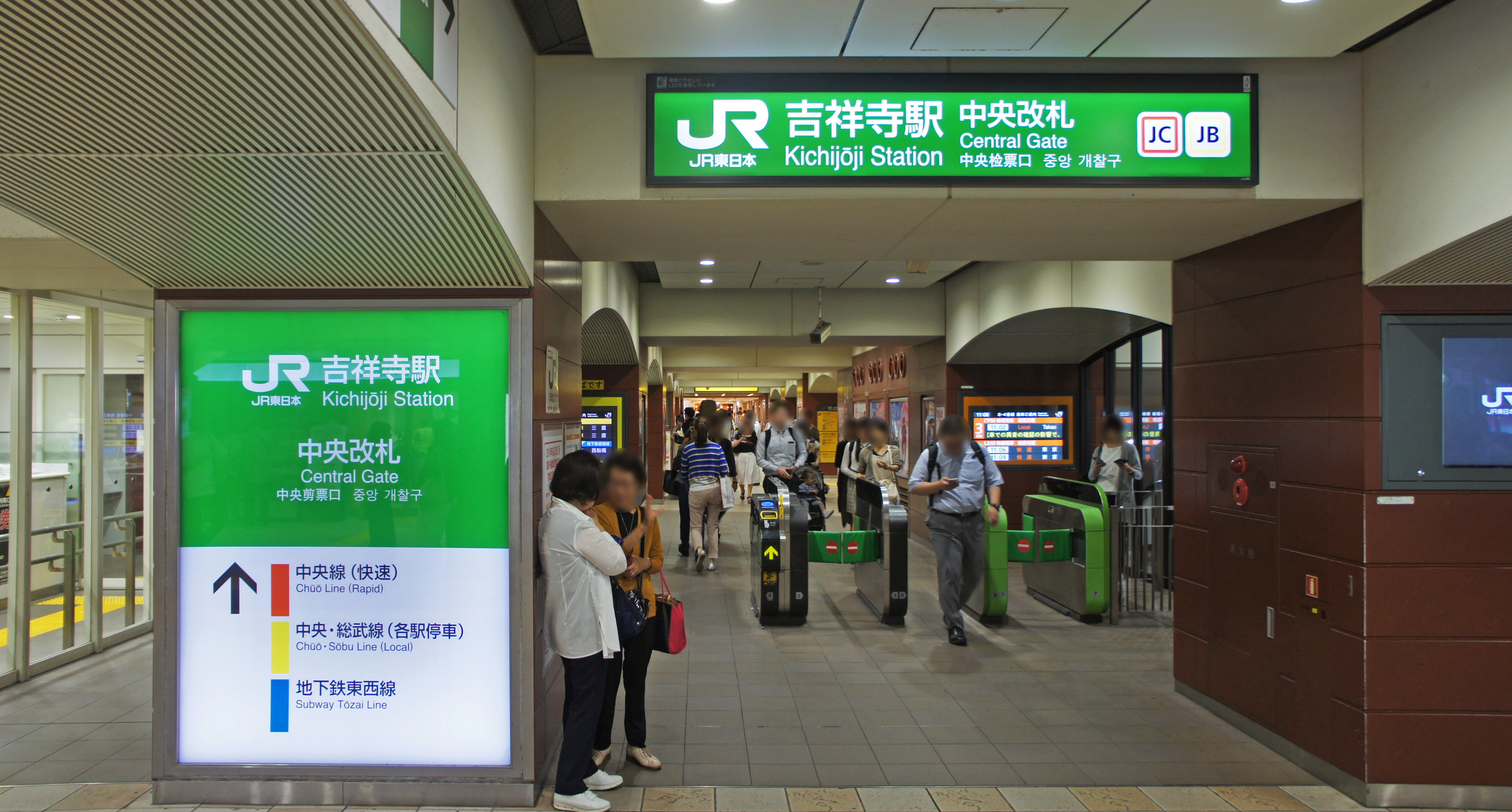 Central Gates of JR Chuo-Main-Line Kichijoji Station